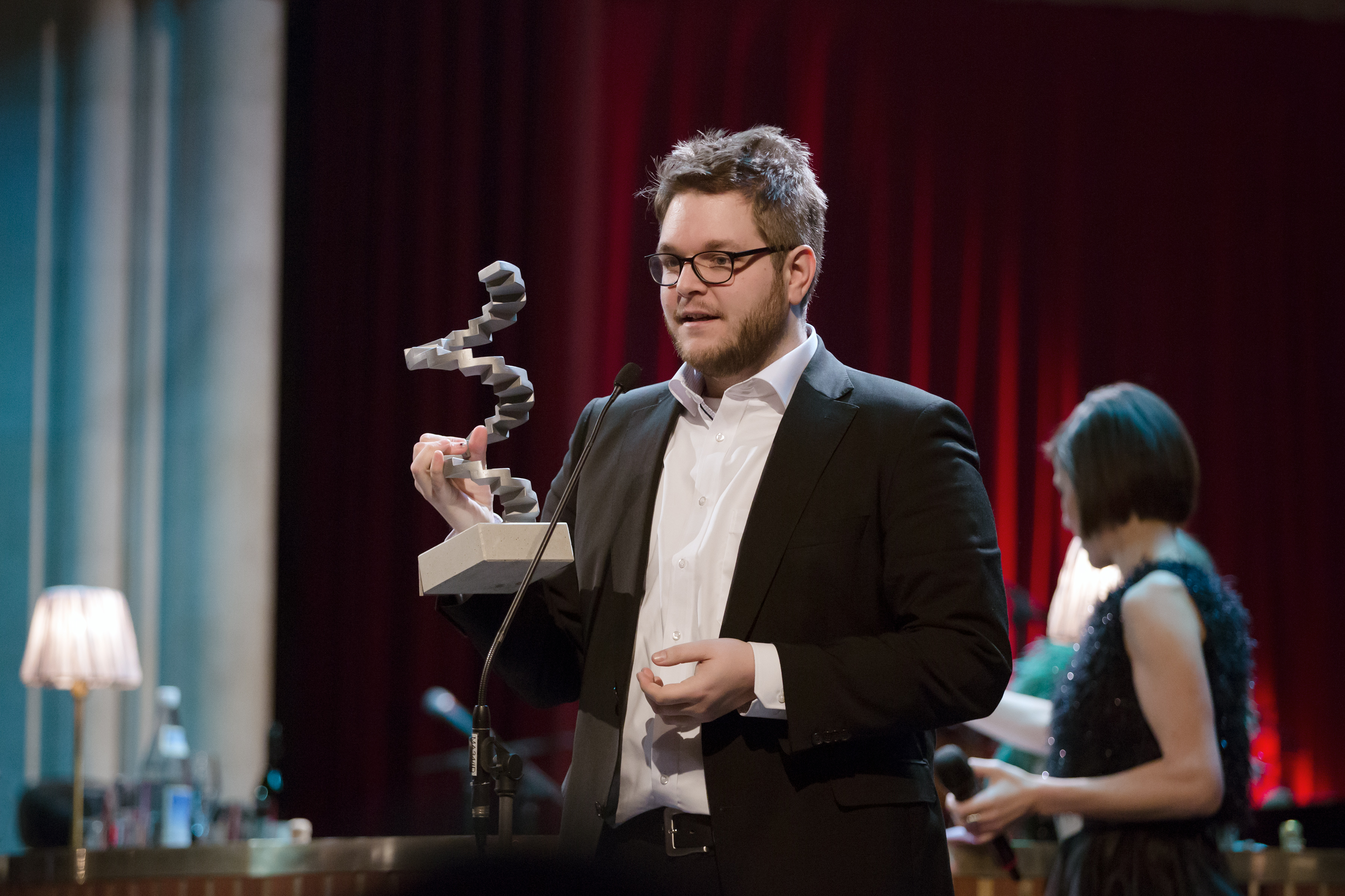 Austrian Film Awards 2017: Paul Gallister - best music: Center of my World; Rathaus, Vienna, Austria.